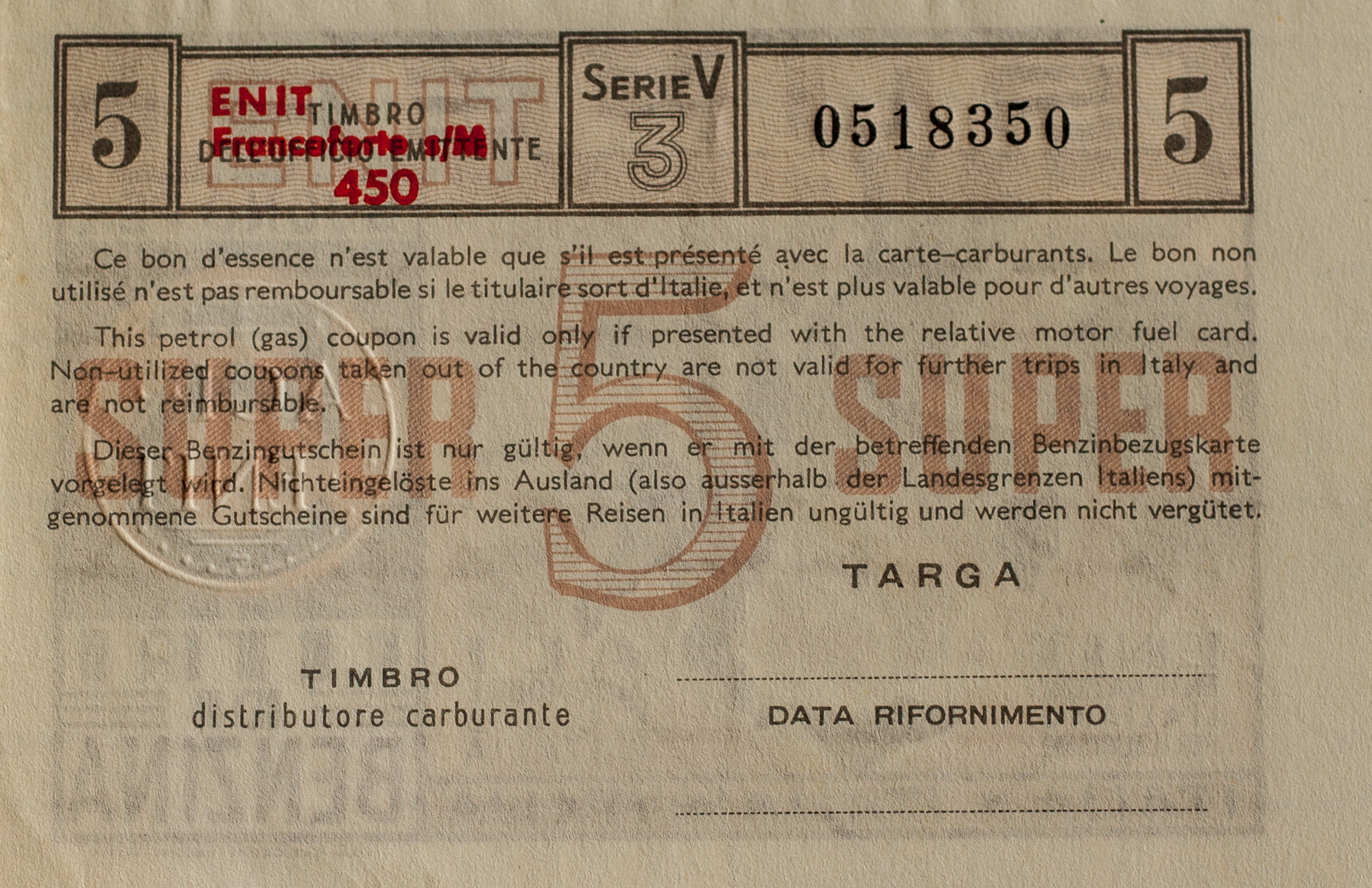 Backside of a 5 litres Petrol Coupon of Italy